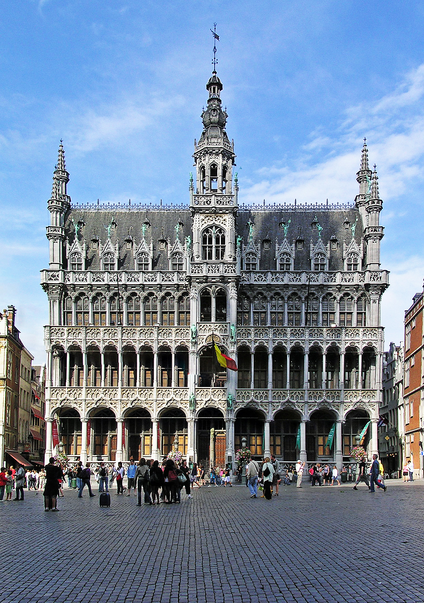 The Maison du Roi (King's House), or Broodhuis (Breadhouse).Grand Place, Brussels